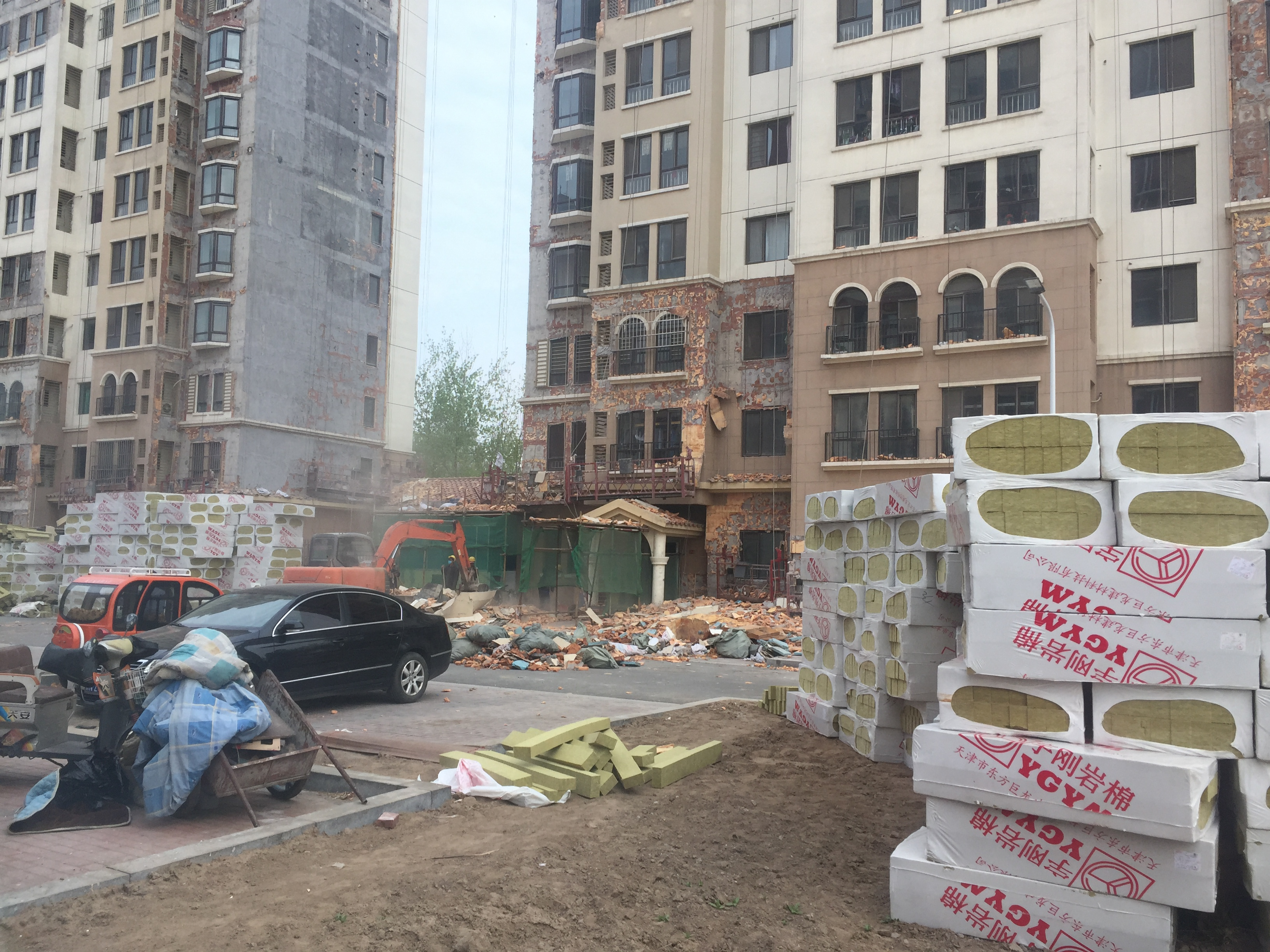 Taitou residential complex underwent major renovation work in 2015-2016